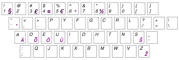 Unofficial Estonian Dvorak Layout as created by Taavi Ilves and included in Linux distributions.